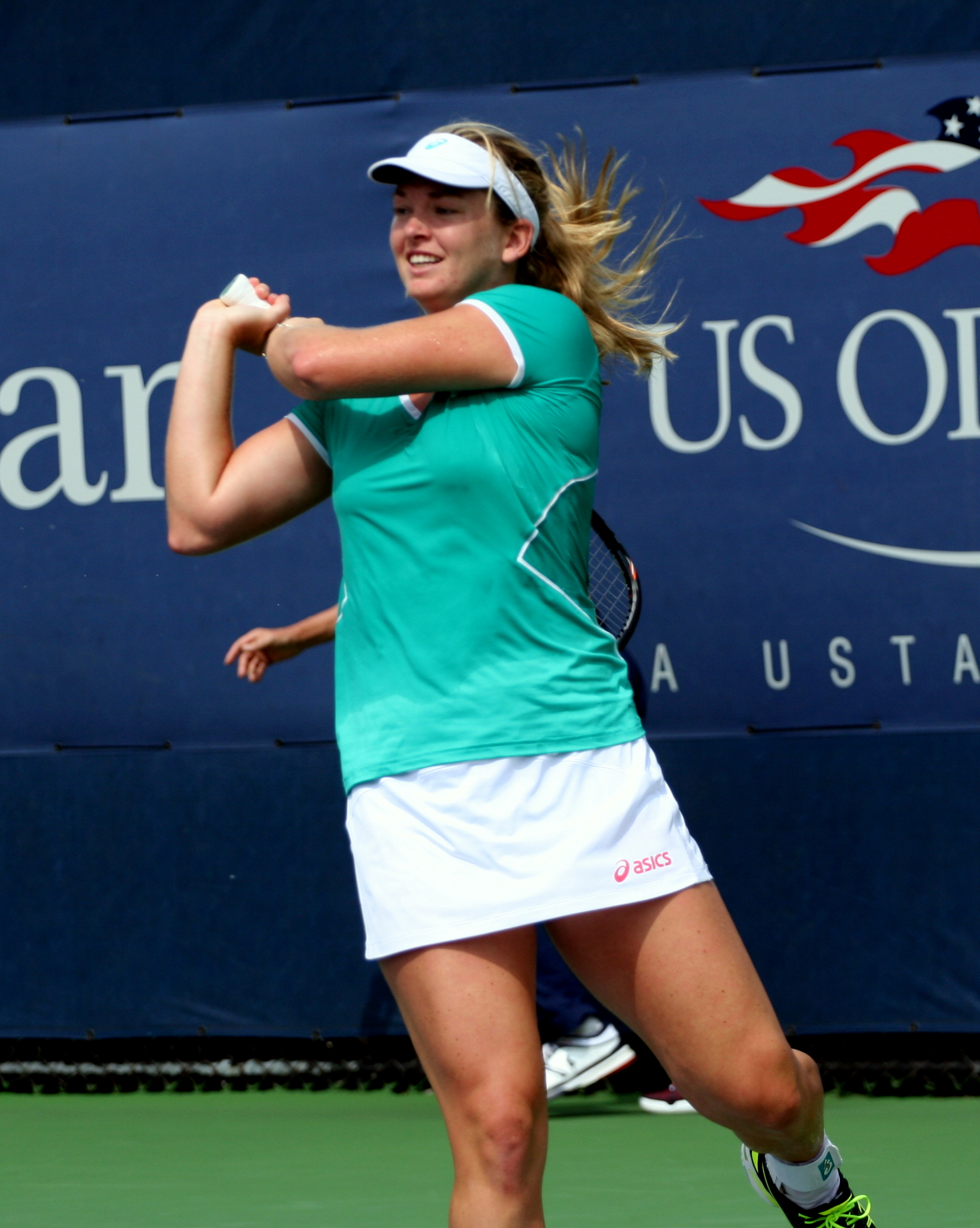 U.S. Open Friday, Aug. 30, 2013